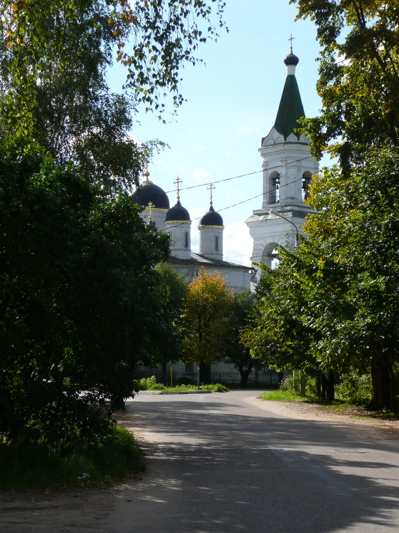 The White Trinity Church in Tver